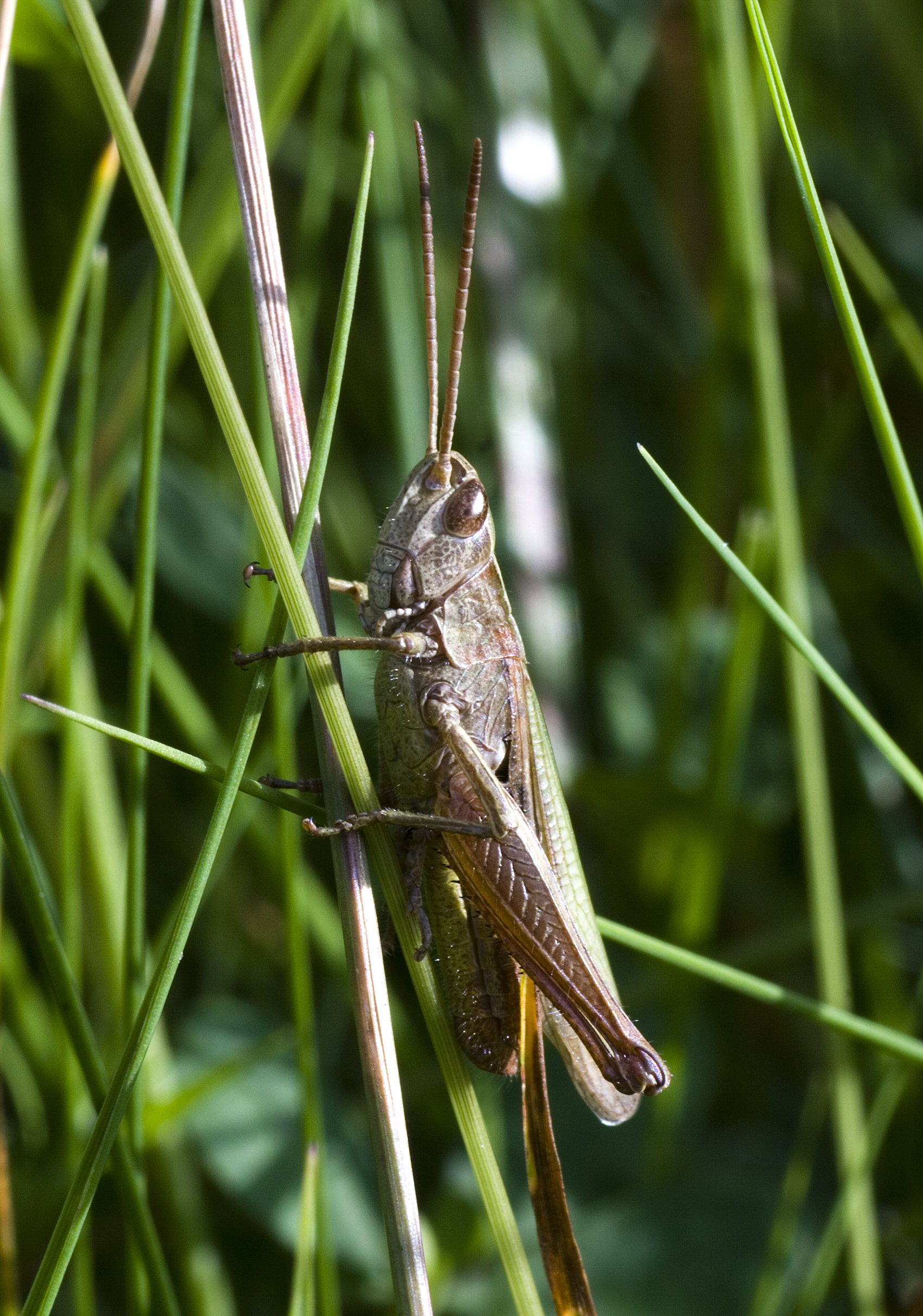 Chorthippus Albomarginatus, Weißrandiger Grashüpfer, male. Weißrandiger Grashüpfer (Chorthippus Albomarginatus)